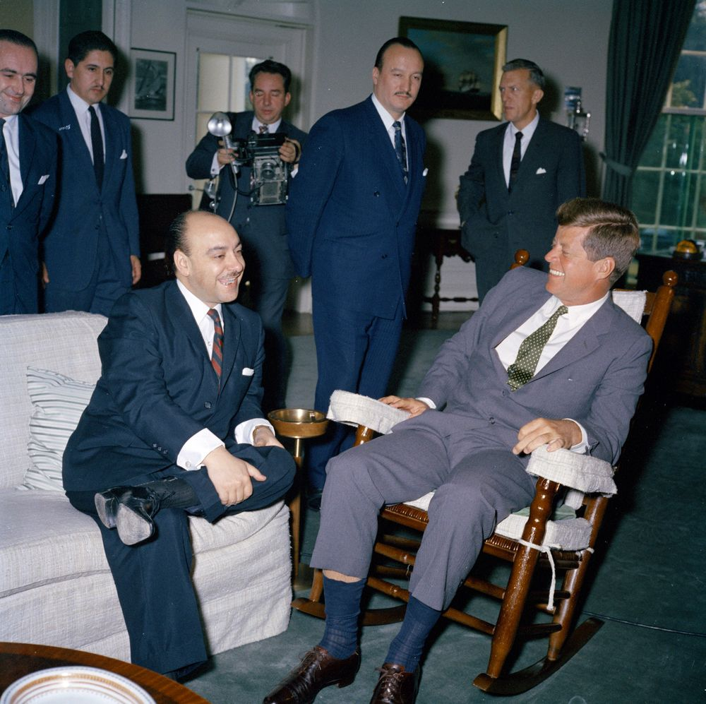 President John F. Kennedy meets with Carlos Martínez Sotomayor, Foreign Minister of Chile. Carlos Martínez Sotomayor (seated on couch); President Kennedy (in rocking chair); Wymberley Coerr, Acting Assistant Secretary of State for Inter-American Affairs (standing, far right); others unidentified. Oval Office, White House, Washington, D.C.